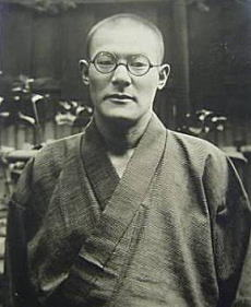 Kimura Shōhachi（1893-1958）